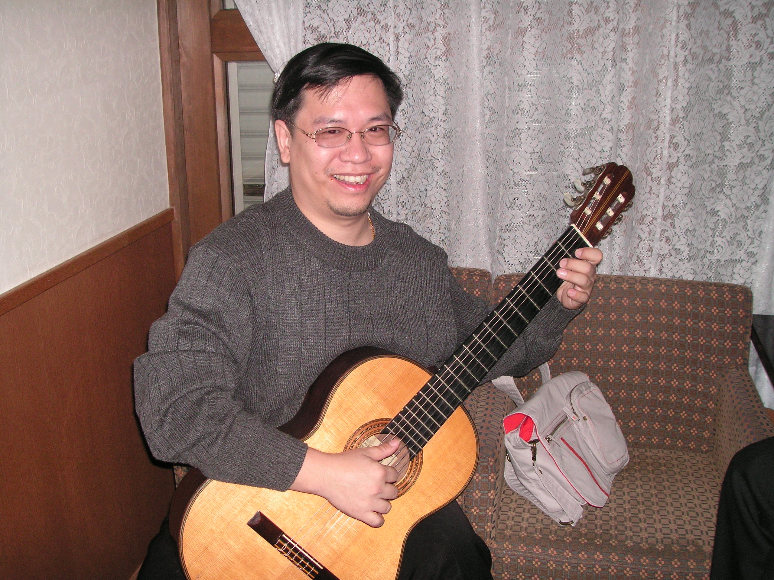 Wopratep Rattana - umpawan